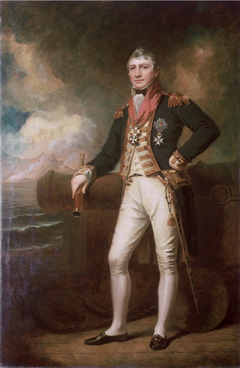 Admiral David Milne (1763-1845) oil on canvas 241 x 149 cm 1828 inscribed: After Sir H Raeburn by G F Clarke